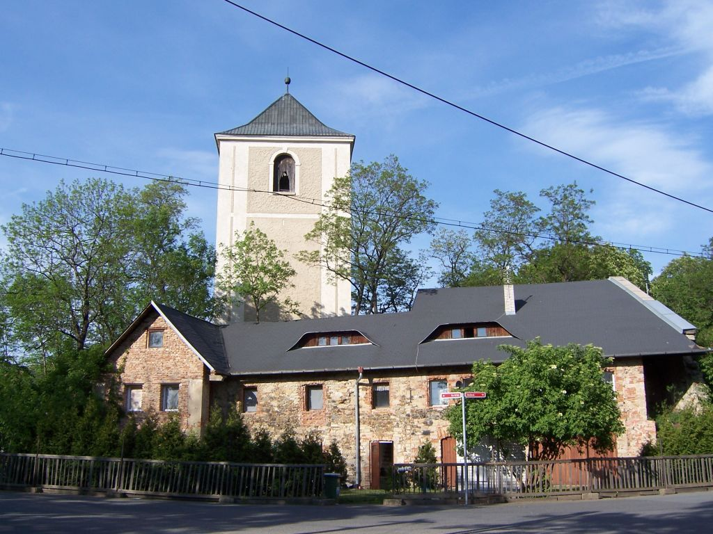 Tuklaty